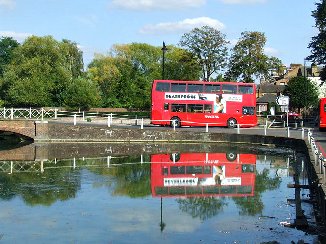 Bus reflection Bus at the ponds in Carshalton